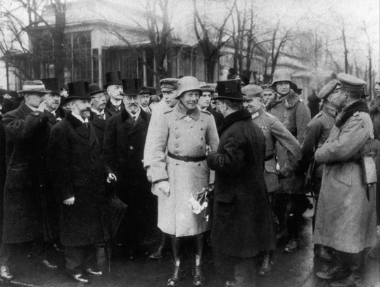 The representative of the Finnish Government, senator Onni Talas, congratulates German General Rüdiger von der Goltz in Helsinki in spring, 1918. German troops landed in Hanko, Loviisa and Helsinki in April, 1918, during the Finnish Civil War.